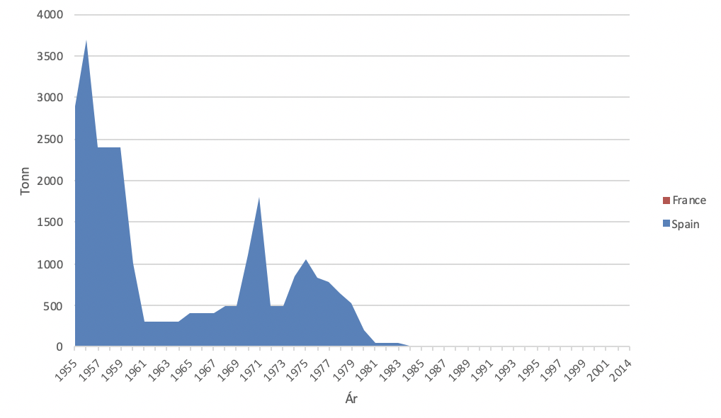 Heildarafli EFH